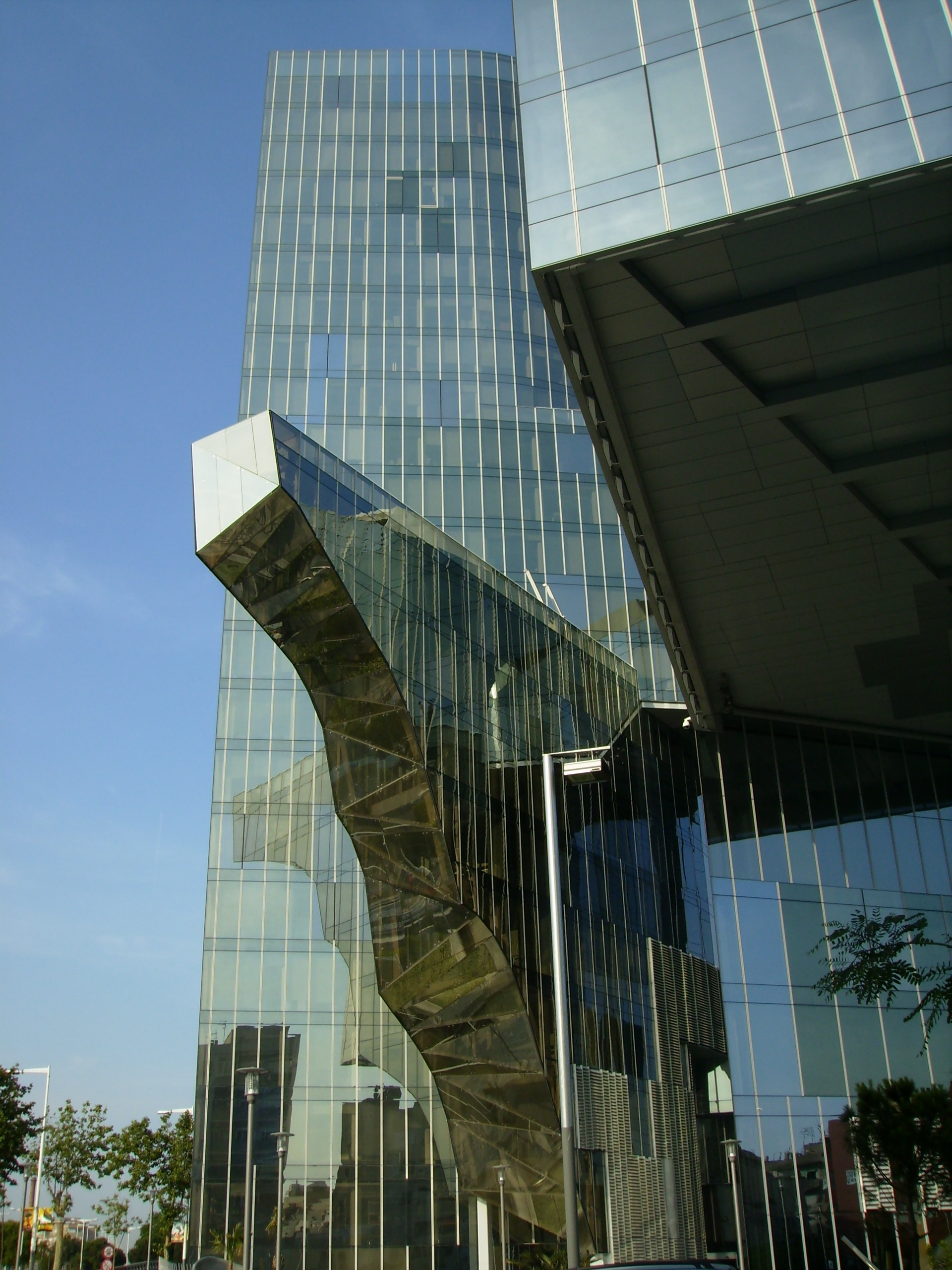 Torre Mare Nostrum, Gas Natural Company building in Barcelona, Catalonia.